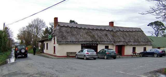 O'Brien's pub, Killenagh Cross Roads, Co. Wexford A popular thatched pub in rural north Wexford.